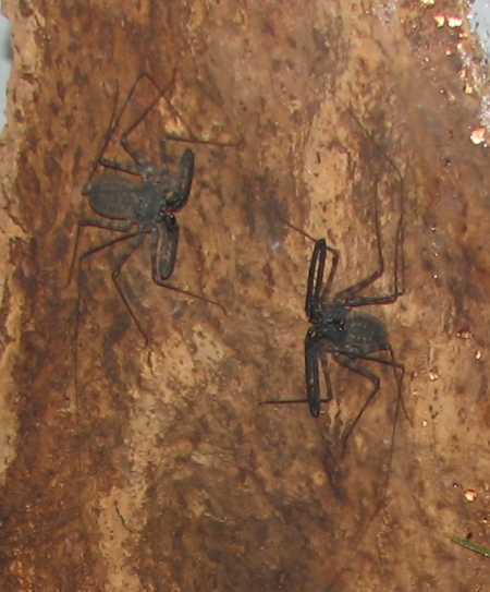 Cave Whip Spider (Damon variegatus)